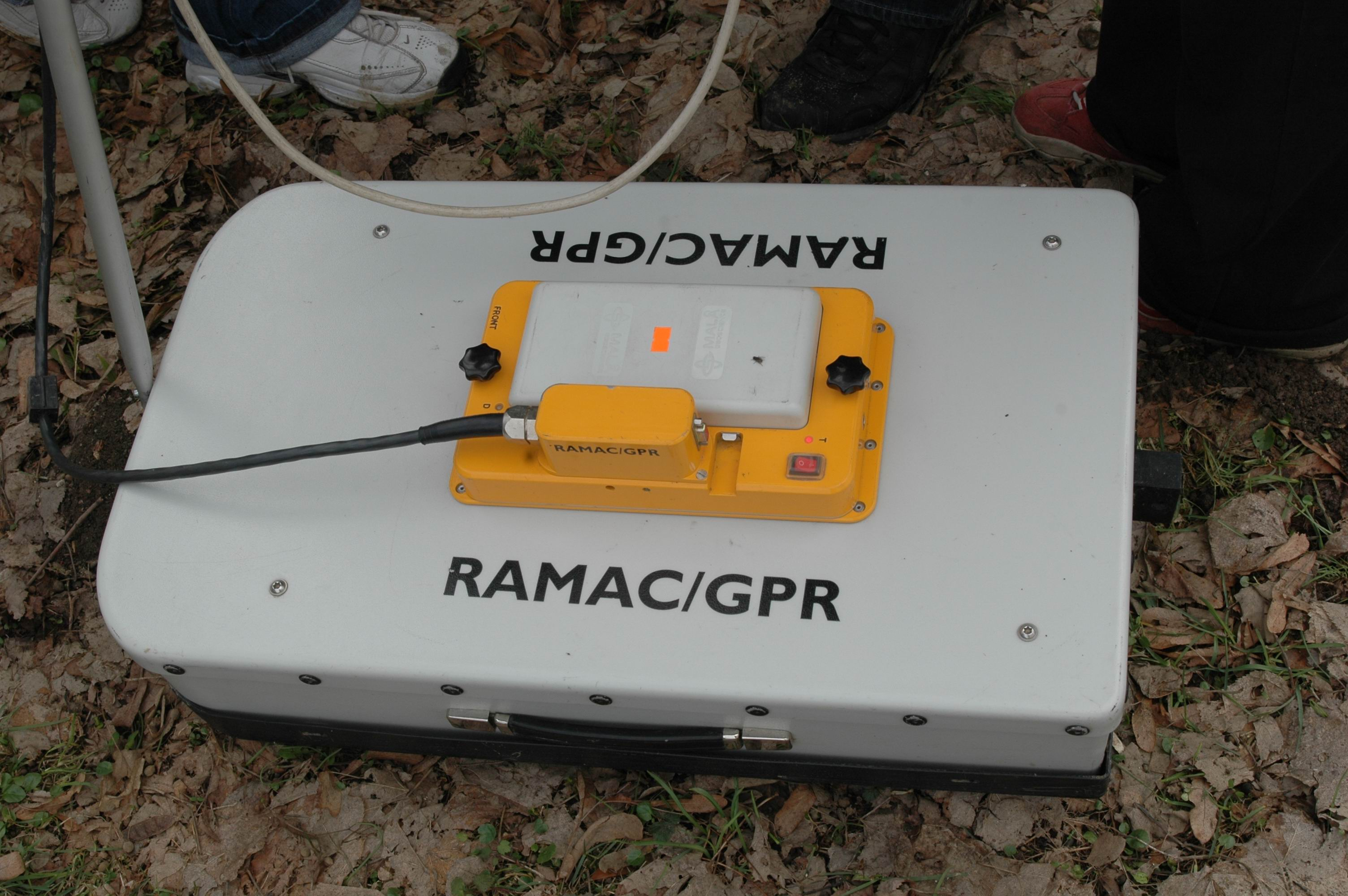 Ground penetrating radar